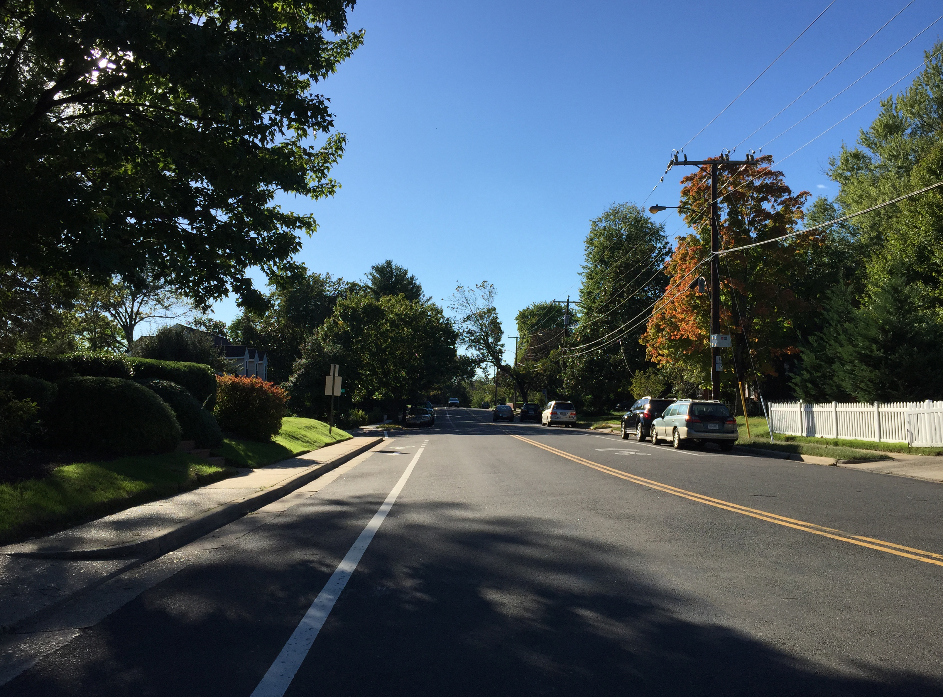 View west along Virginia State Route 420 (Janneys Lane) at Virginia State Route 7 (King Street) in Alexandria, Virginia